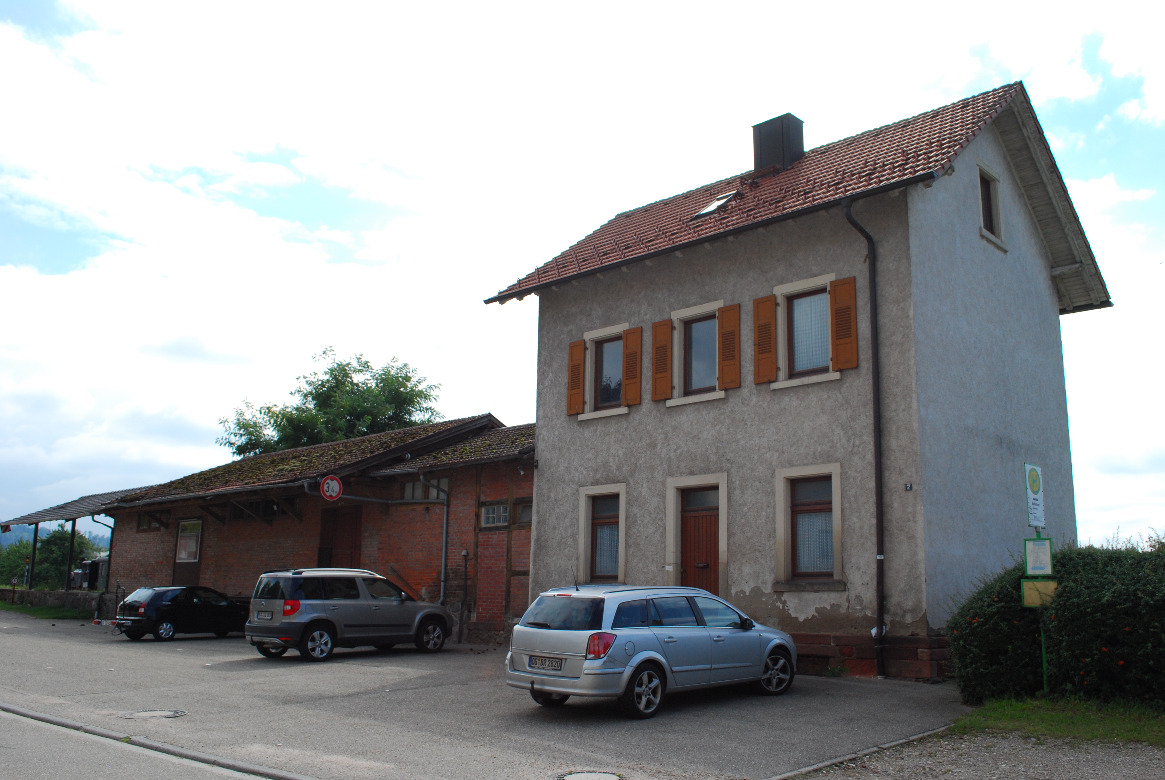 Oberachern Station on the Achertalbahn, 09/12.